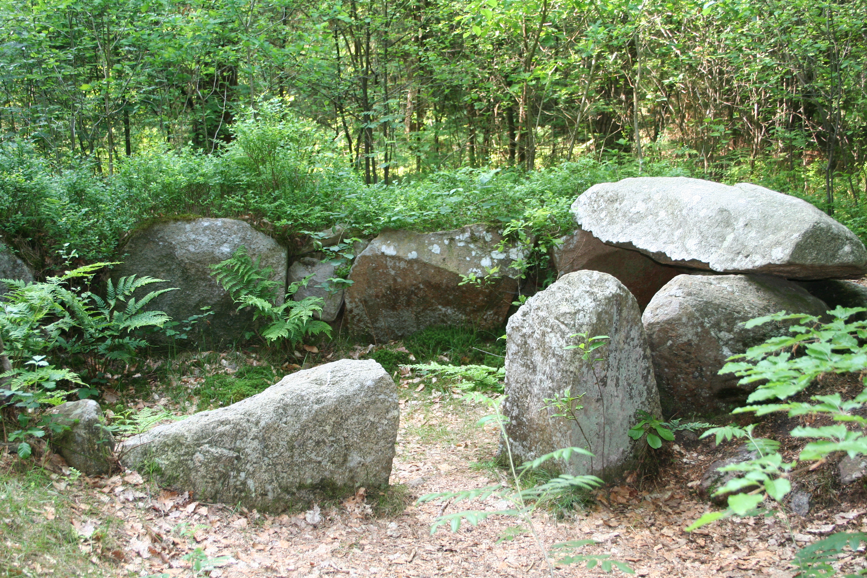 Megalithic tomb Gnarrenburg